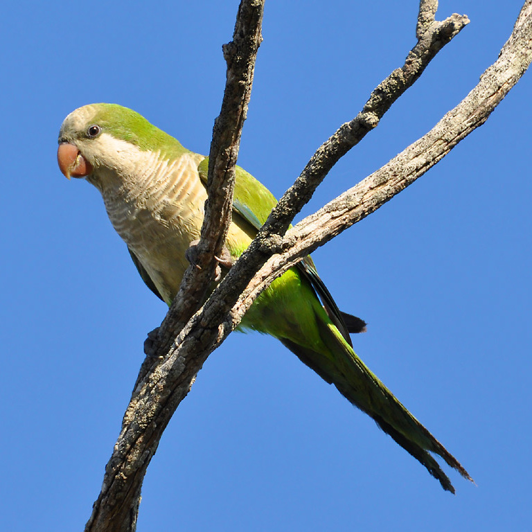 A Monk Parakeet (also known as the Quaker Parrot) in Punta del Diablo, Rocha, Uruguay.